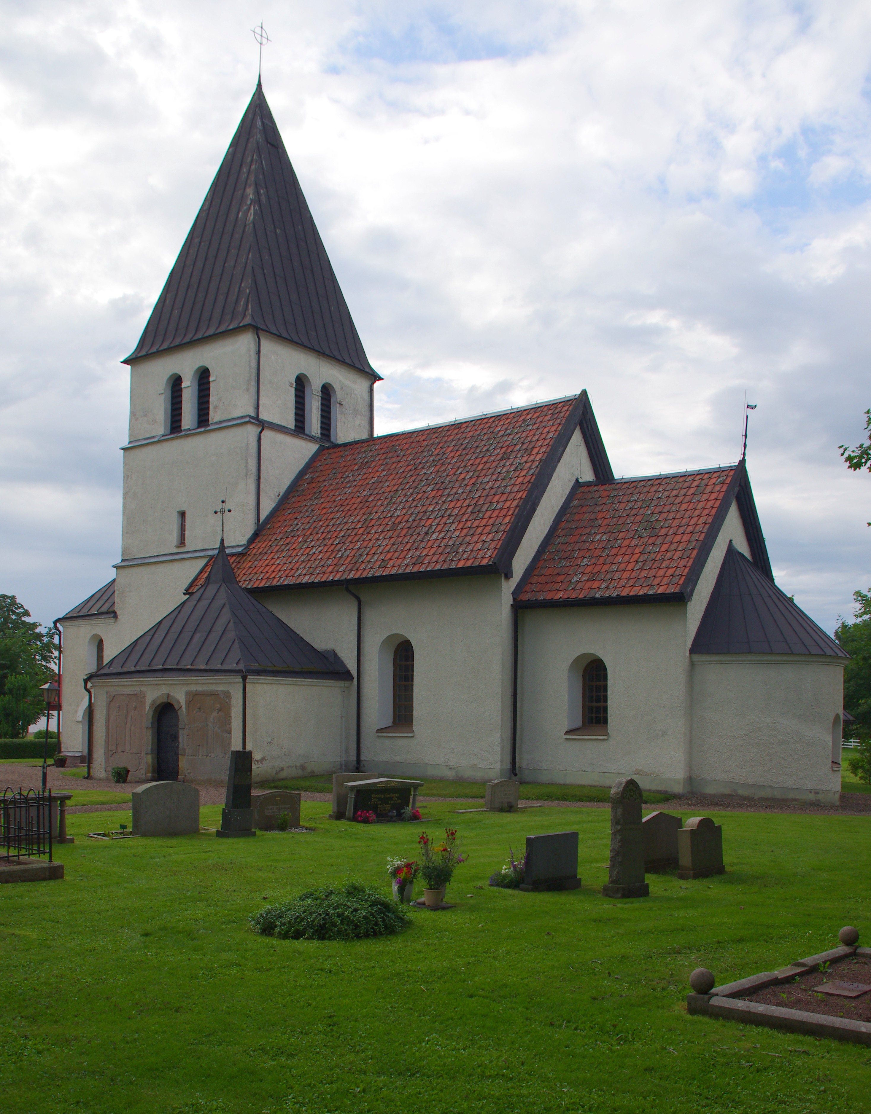 Hångsdala church in Västergötland, Sweden.